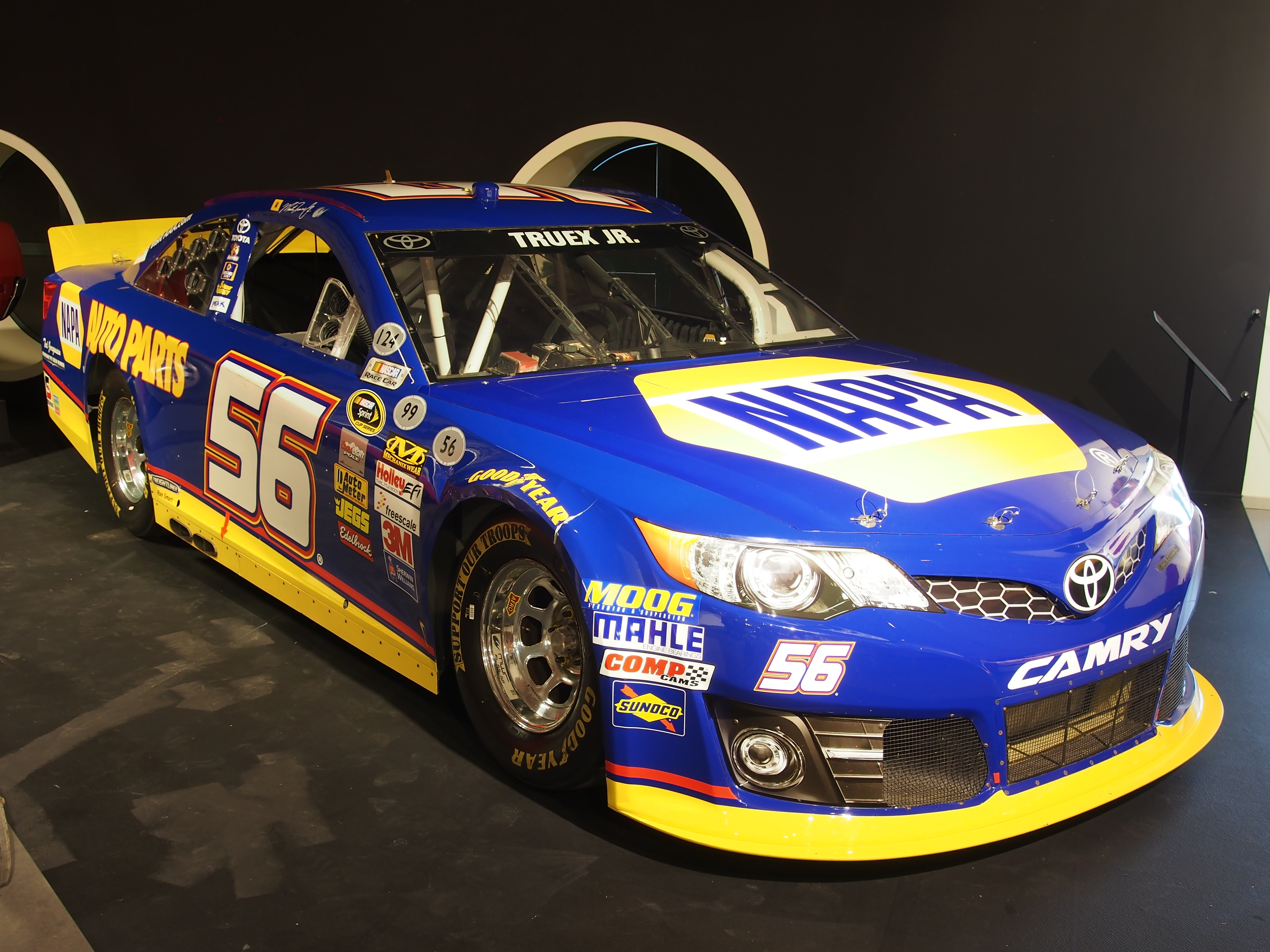 2013 Toyota Camry Nascar photographed at the Louwman museum.